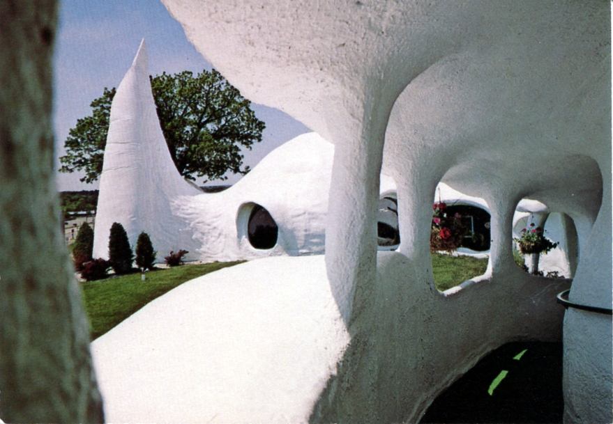 Xanadu House Interior